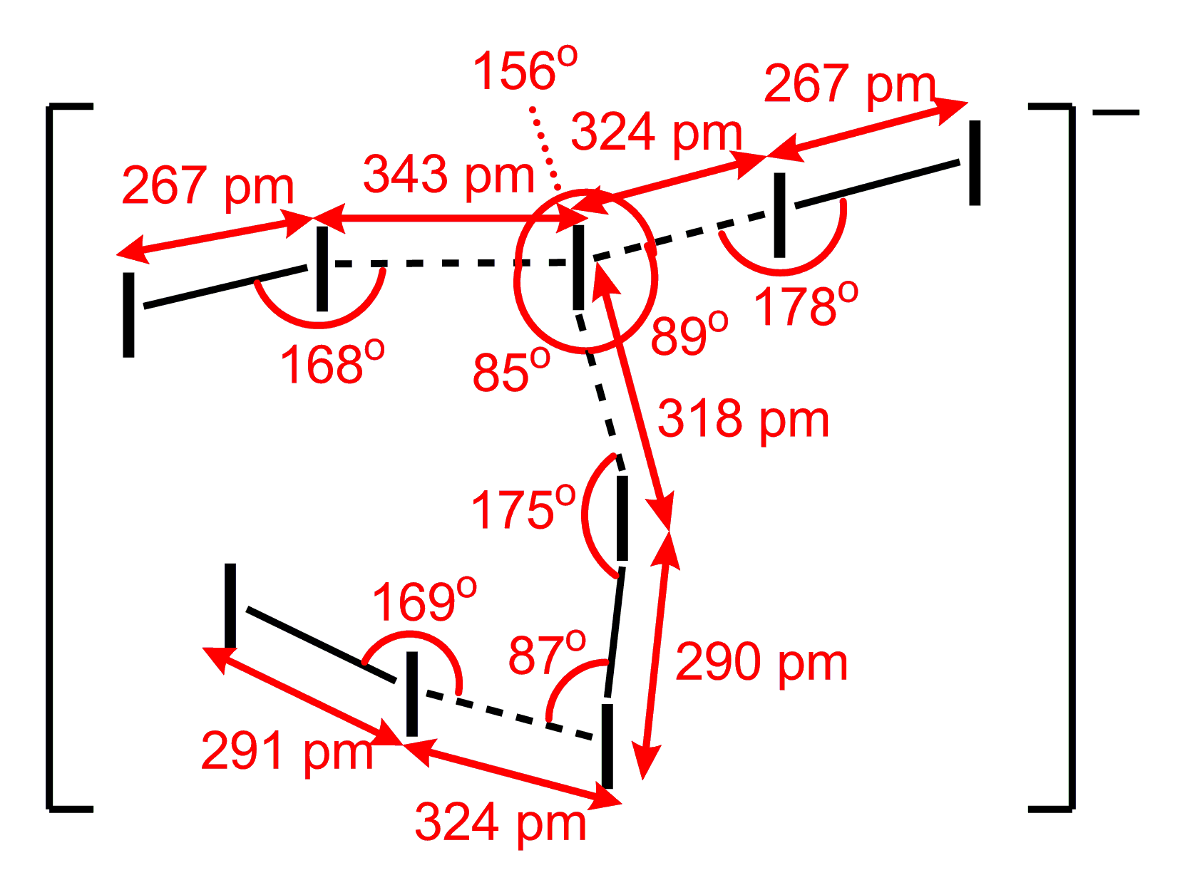 structure of I9− anion